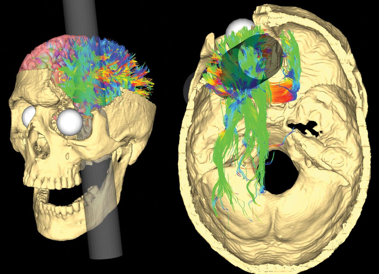 (left) A rendering of the Gage skull with the best fit rod trajectory and example fiber pathways in the left hemisphere intersected by the rod. (right) A view of the interior of the Gage skull showing the extent of fiber pathways intersected by the tamping iron in a sample subject (i.e. one having minimal spatial deformation to the Gage skull).